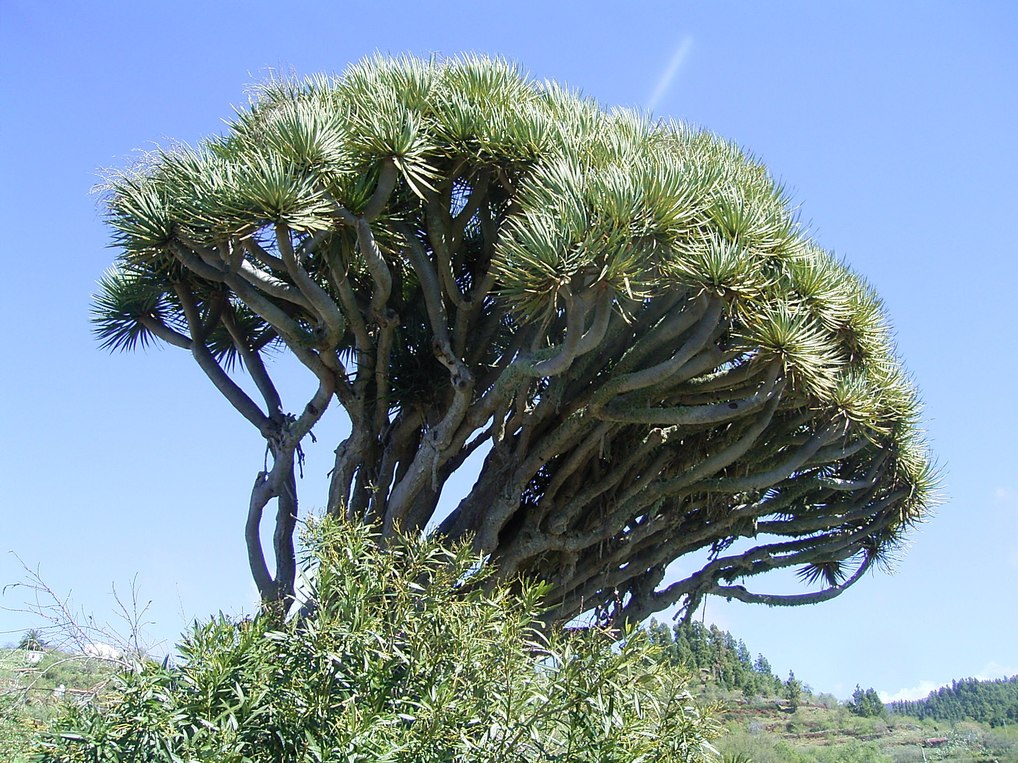 Dracaena draco growing in Puntagorda, La Palma, Canary Islands